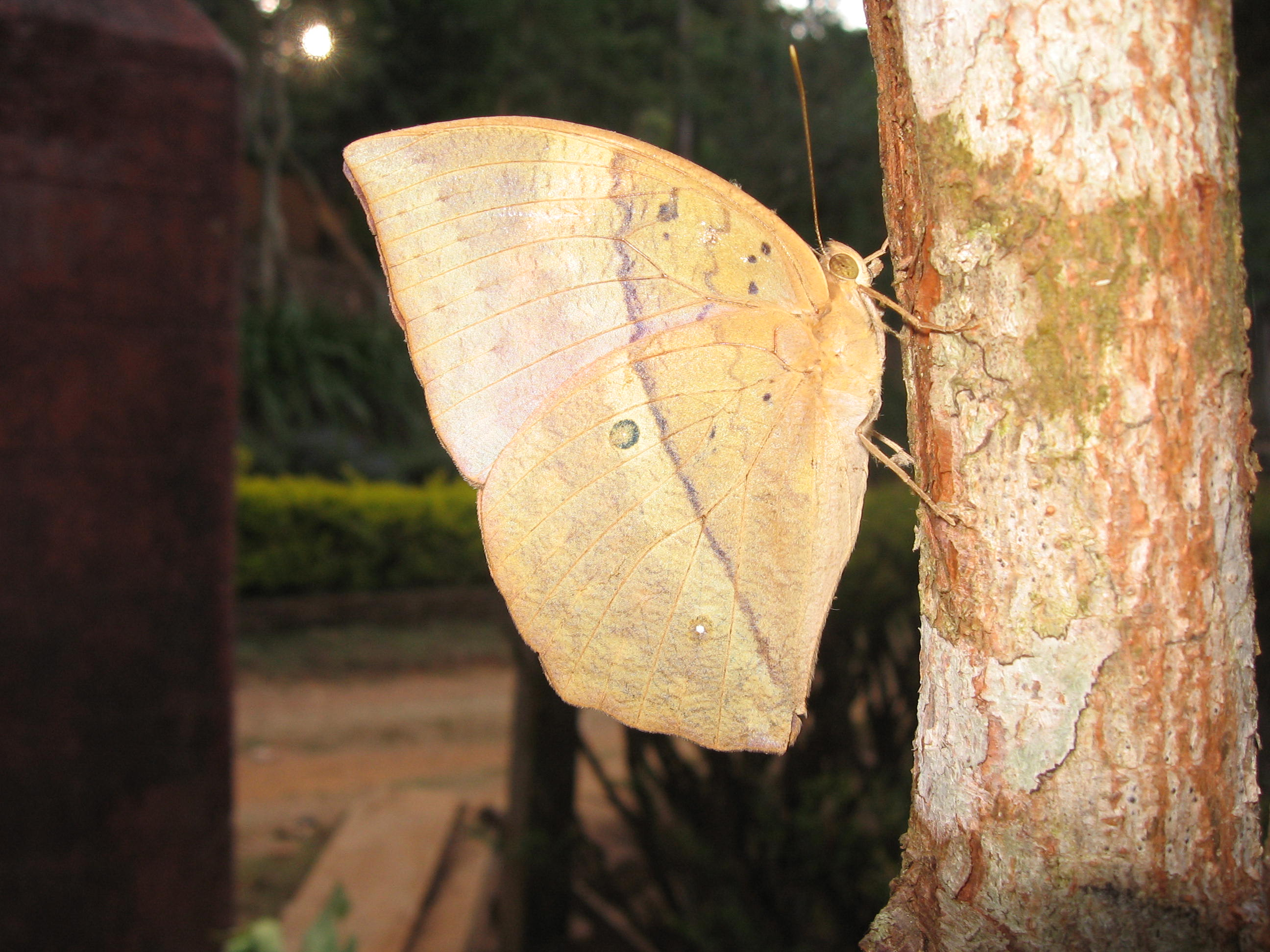 Southern Duffer butterfly photographed from Siruvani area